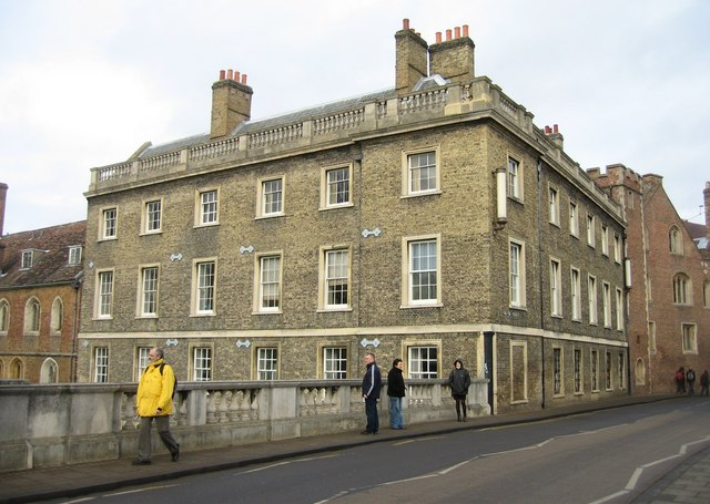 Essex Building - Queens' College